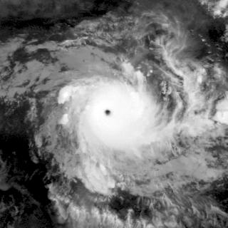 Cyclone Fantala at peak intensity on April 17th, to the north of Madagascar.